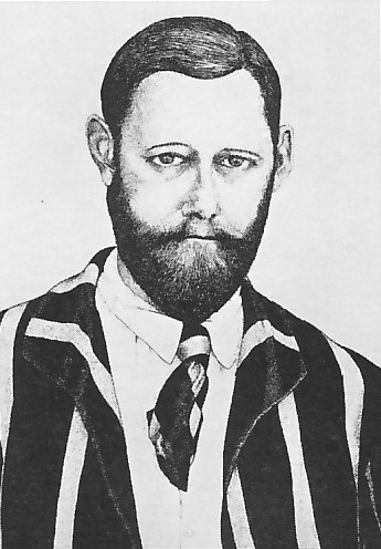 Spencer Gore (1850-1906), English tennis player, first Wimbledon Champion 1877